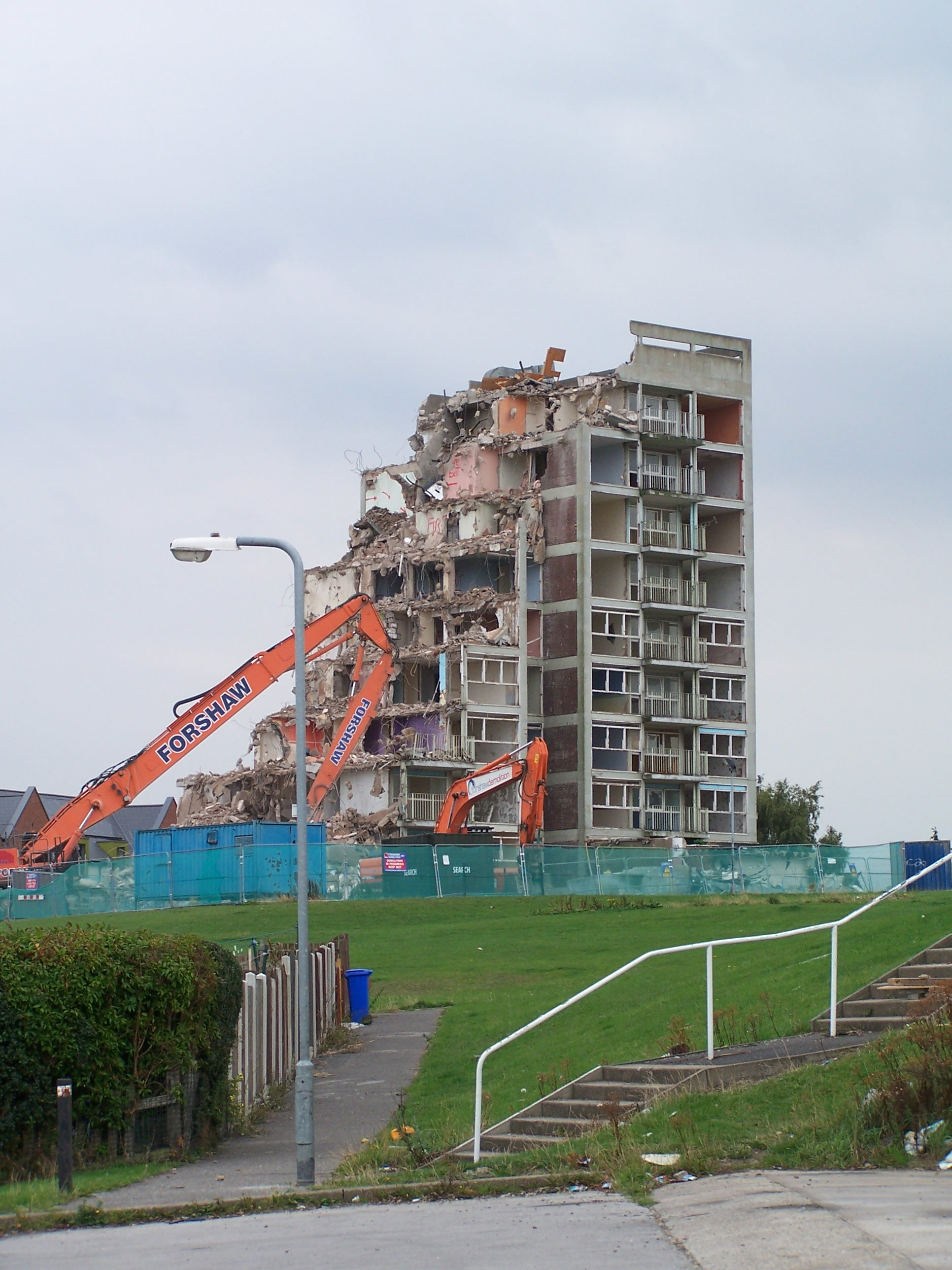 The Fosters Tower Block, Angram Bank, High Green ... Going, Going - 2